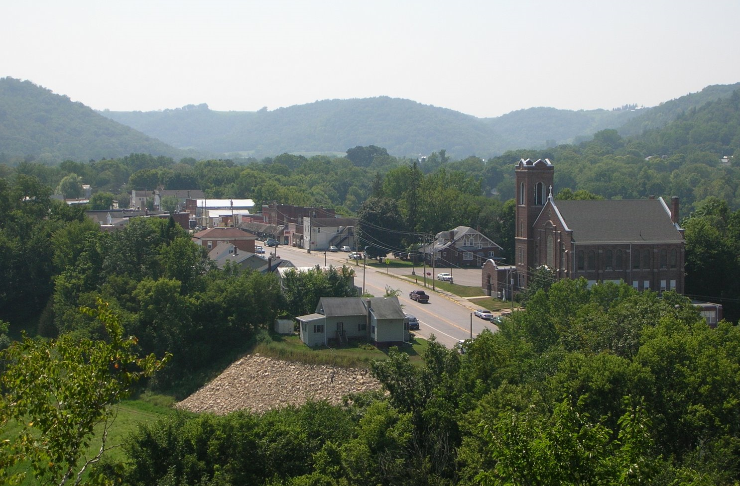 Downtown Hokah, MN from Mt. Tom